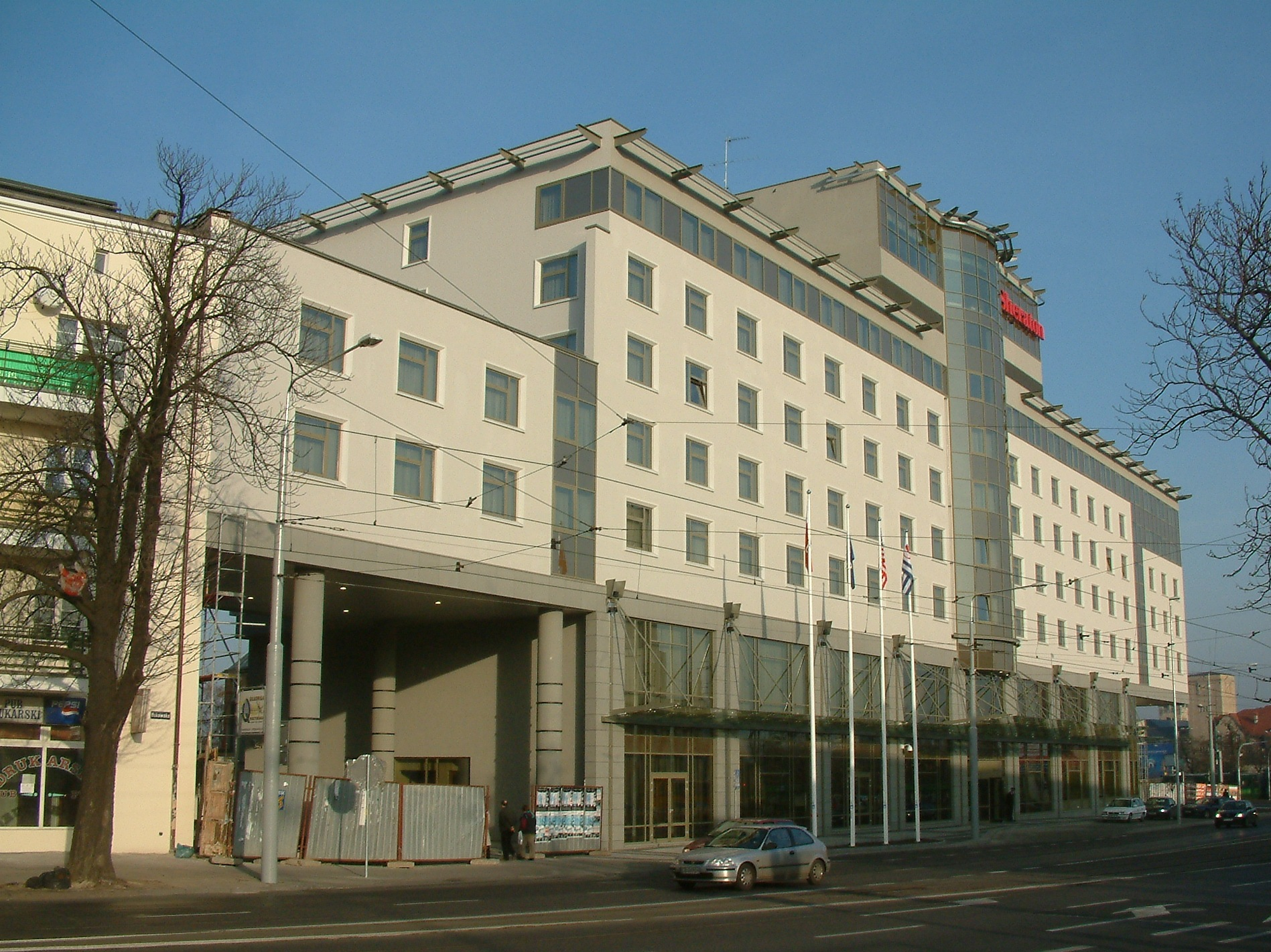 Hotel Sheraton in Poznań